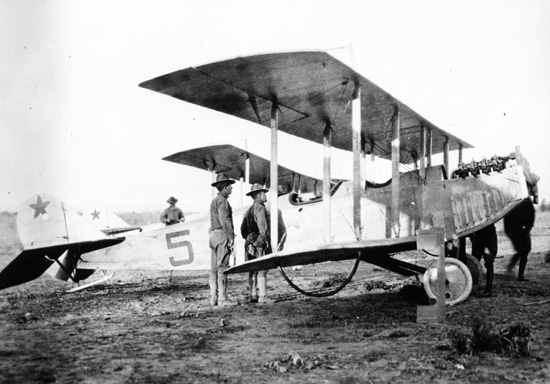 Curtiss JN-3 of the U.S. Army Signal Corps during the Pancho Villa puntive expedition (1915) - note red star insignia